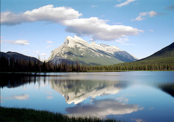 Photo taken from shore of Vermilion Lakes, just west of Banff, Alberta, in the Canadian Rocky Mountains.